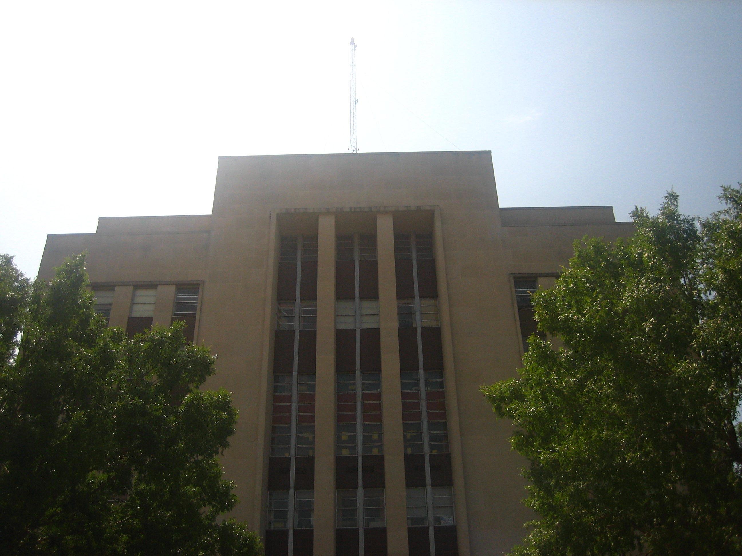 I took photo on Aug. 1, 2008.Billy Hathorn (talk) 16:05, 19 August 2008 (UTC)